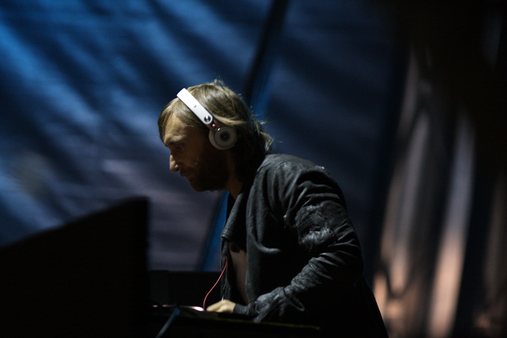 David Guetta Headlines Creamfields, Sydney Australia